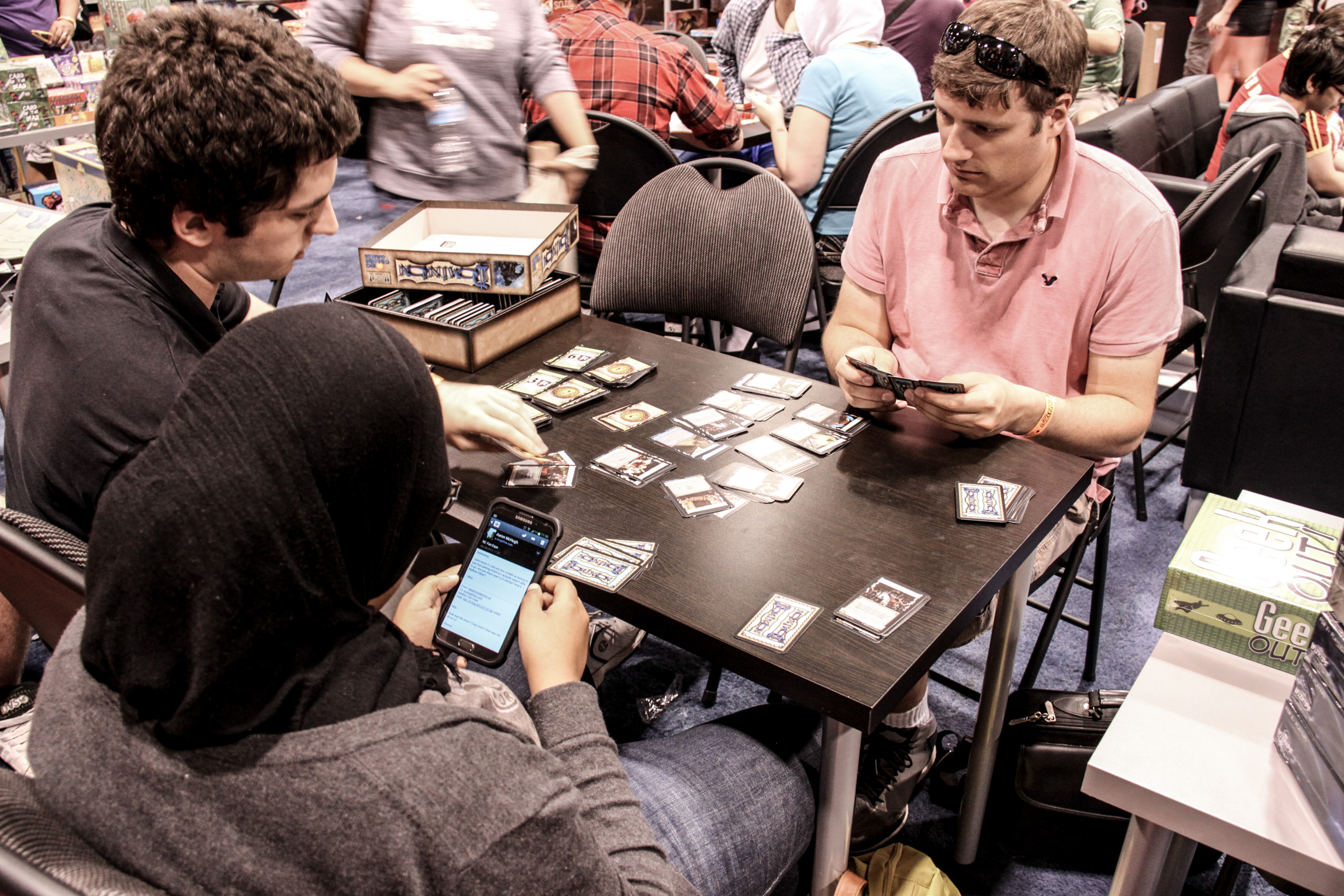 A game of Dominion in progress at Fan Expo Canada in Toronto in 2014.